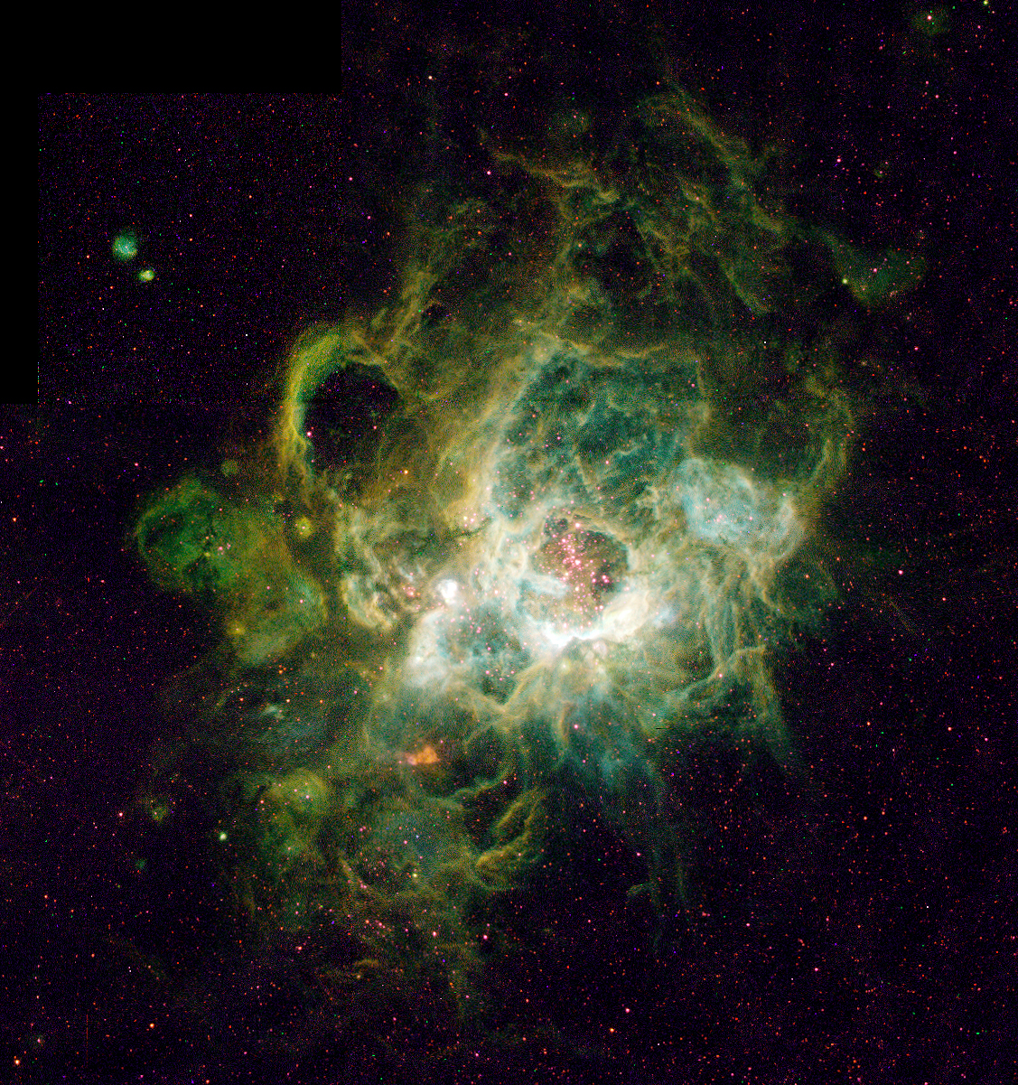 This is a Hubble Space Telescope image (right) of a vast nebula called NGC 604, which lies in the neighboring spiral galaxy M33, located 2.7 million light-years away in the constellation Triangulum. This is a site where new stars are being born in a spiral arm of the galaxy. Though such nebulae are common in galaxies, this one is particularly large, nearly 1,500 light-years across. The nebula is so vast it is easily seen in ground-based telescopic images (left). At the heart of NGC 604 are over 200 hot stars, much more massive than our Sun (15 to 60 solar masses). They heat the gaseous walls of the nebula making the gas fluoresce. Their light also highlights the nebula's three-dimensional shape, like a lantern in a cavern. By studying the physical structure of a giant nebula, astronomers may determine how clusters of massive stars affect the evolution of the interstellar medium of the galaxy. The nebula also yields clues to its star formation history and will improve understanding of the starburst process when a galaxy undergoes a "firestorm" of star formation. The image was taken on January 17, 1995 with Hubble's Wide Field and Planetary Camera 2. Separate exposures were taken in different colors of light to study the physical properties of the hot gas (17,000 degrees Fahrenheit, 10,000 degrees Kelvin